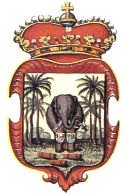 Colonial Coat of arms of Ceylon (1602-1796)